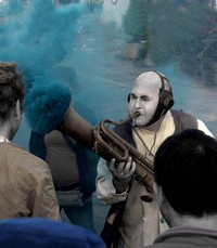 Roland Becker 2005